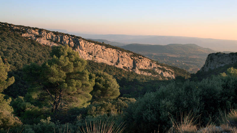 Cliff on the south of the "grand Luberon" (84), France